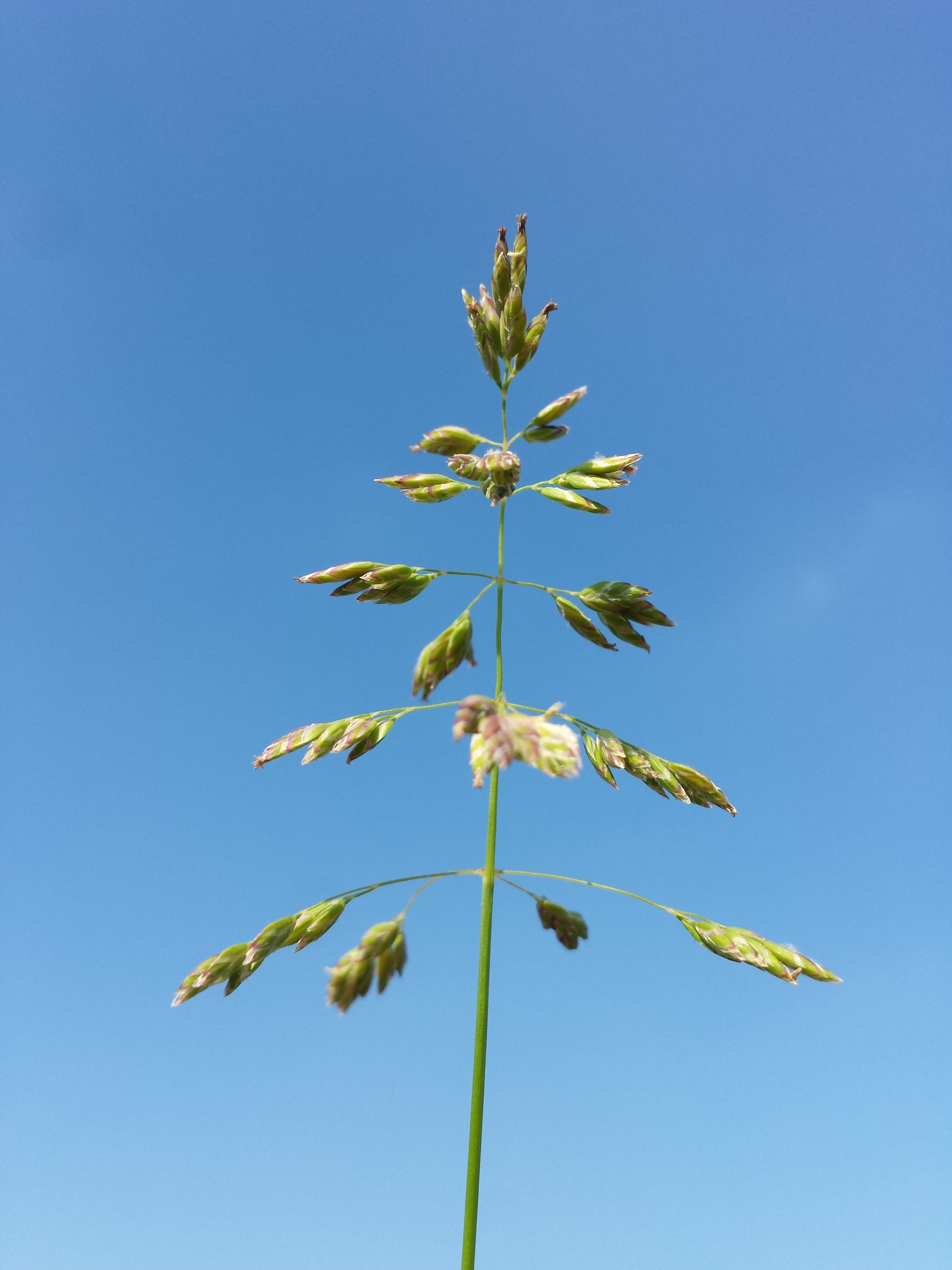 Panicle Taxonym: Poa pratensis ss Fischer et al. EfÖLS 2008 ISBN 978-3-85474-187-9 Location: next to Schmetterlingswiese in Donaupark, Vienna-Donaustadt - ca. 160 m a.s.l. Habitat: ruderal, dry meadows